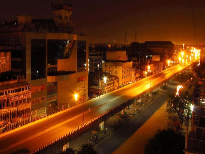 freework